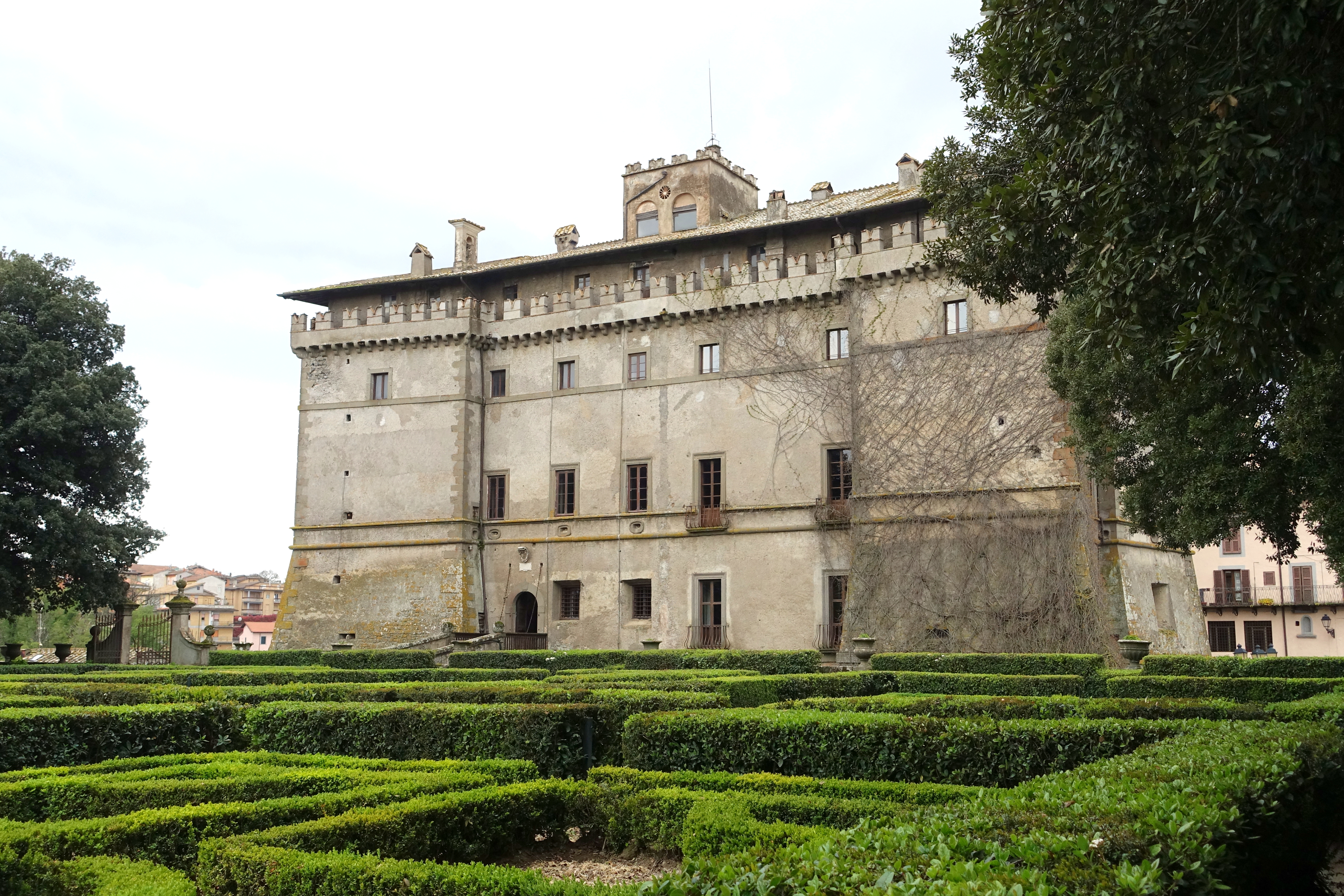 Castello Ruspoli - Vignanello, Italy.